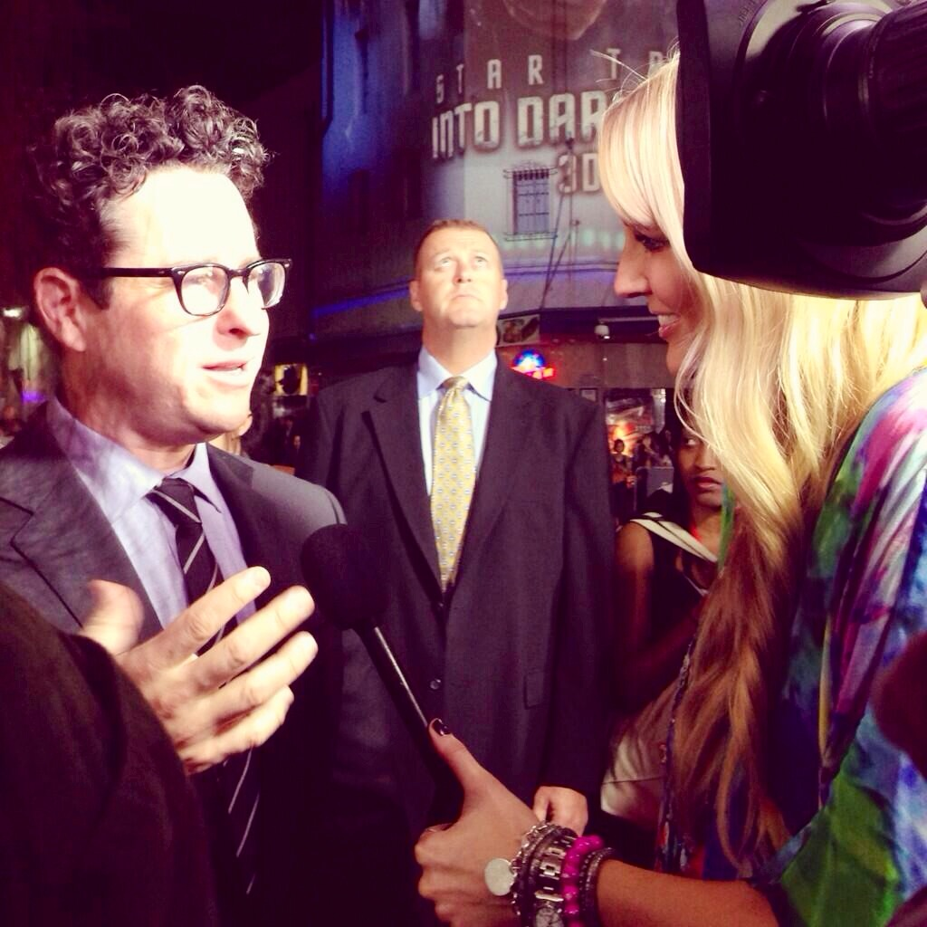 Kylie Speer interviewing J.J. Abrams at the Star Trek Into Darkness Australian premiere in 2013